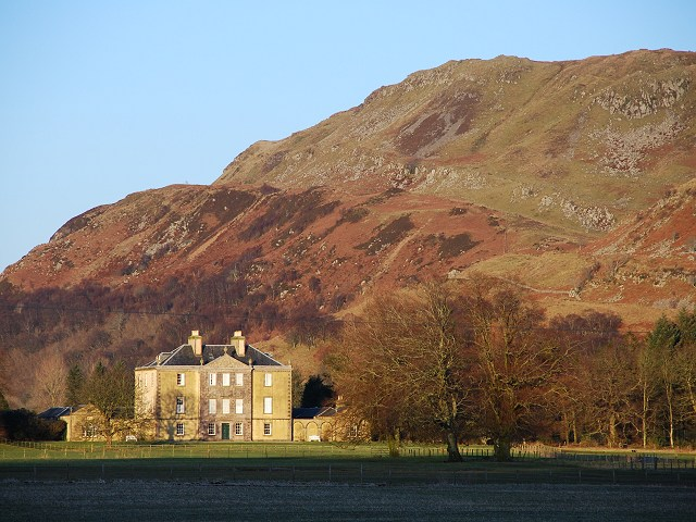 Barbreck House Taken in the last of the winter evening's light from beside the A816 main road between Lochgilphead and Oban. The dead bracken adds a splash of fantastic russet colours to the hillside.